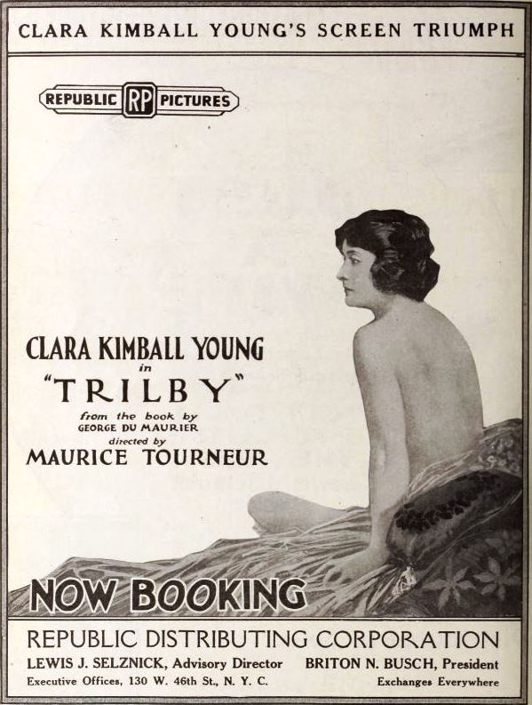 Advertisement for the 1920 reissue of the American film Trilby (1915) with Clara Kimball Young, on page 8 of the March 6, 1920 Exhibitors Herald.